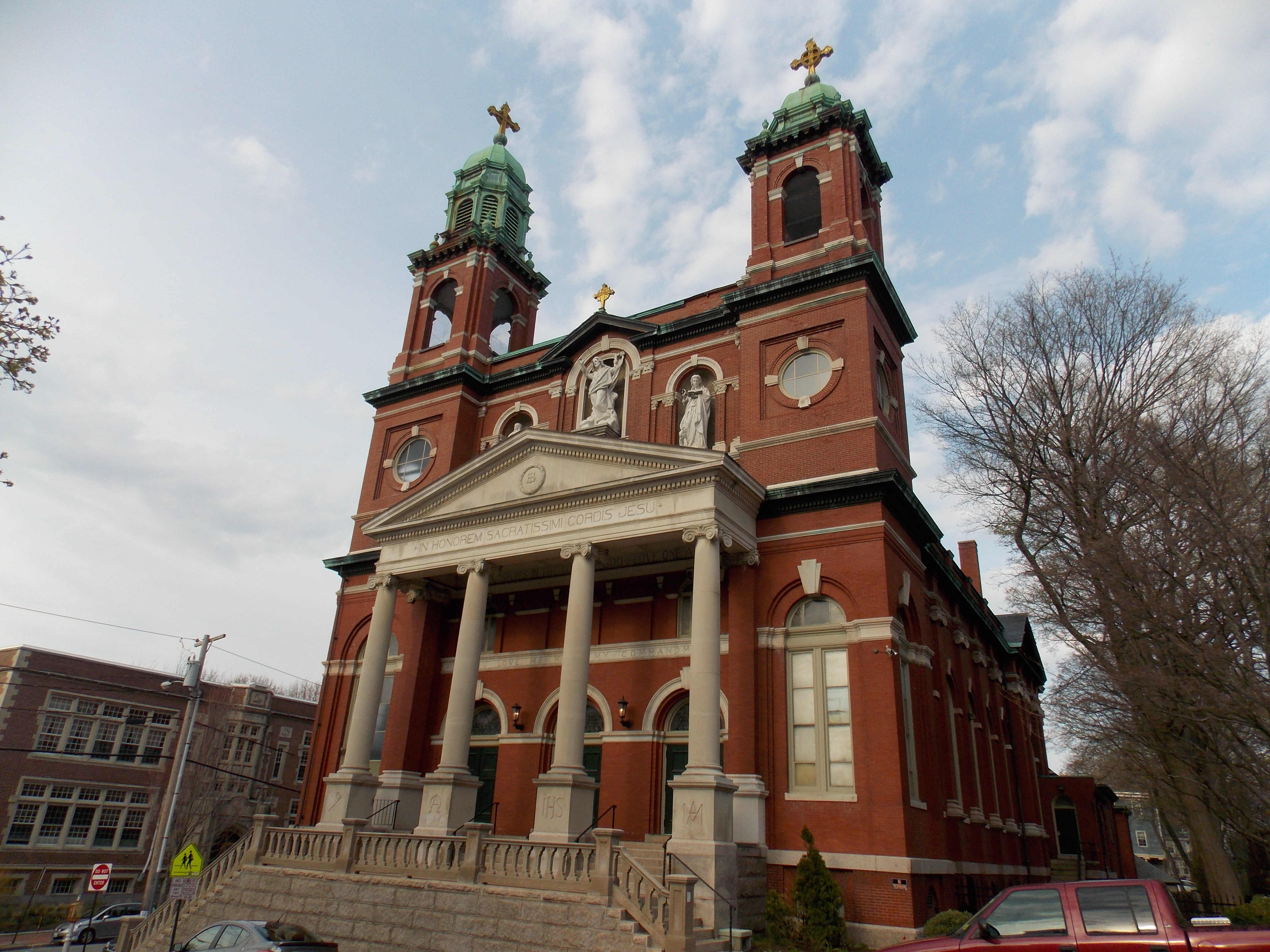 Sacred Heart Catholic Church in Portland, Maine.